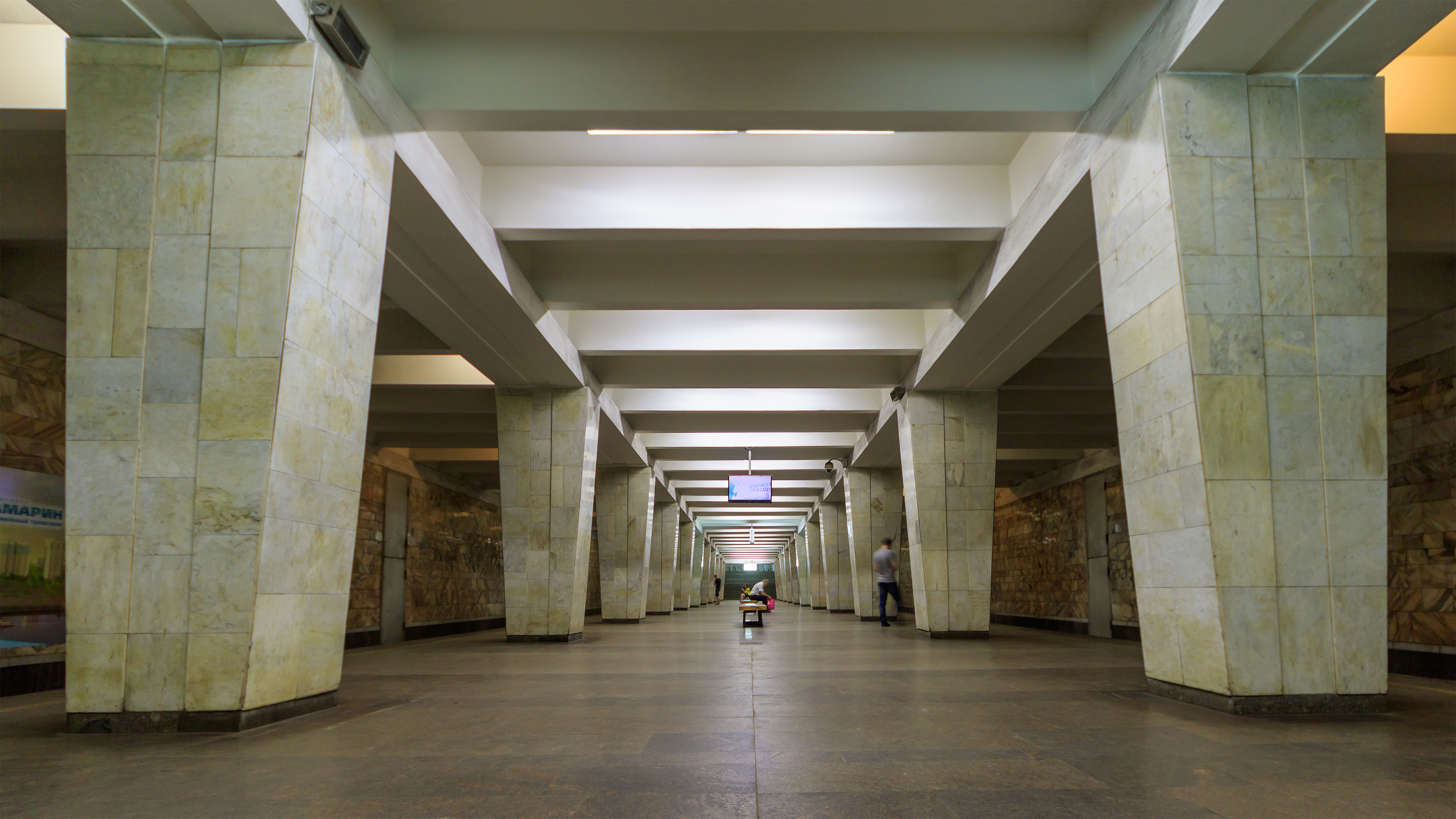 Dvigatel Revolyutsii metro station in Nizhny Novgorod, Russia.